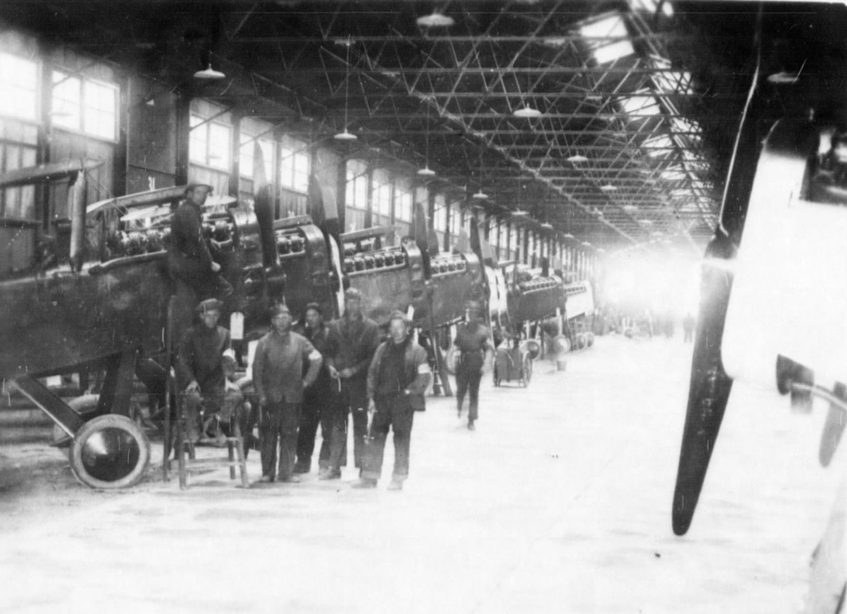 Romorantin Aerodrome - DH-4 Engine Installation